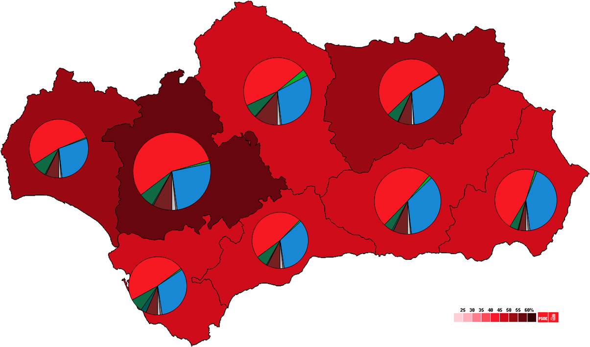 Provincial results for the Andalusian parliamentary election, 2004.